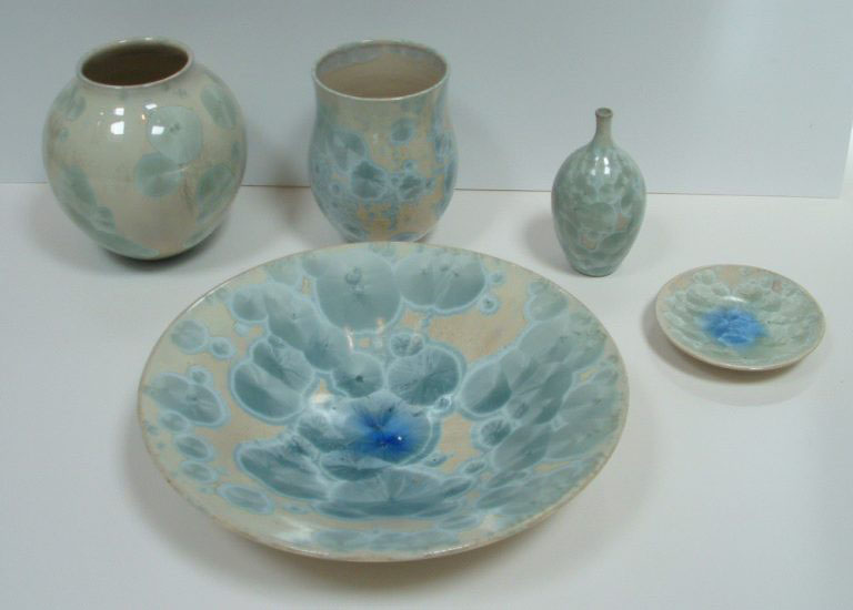 Some Crystalline Ceramics